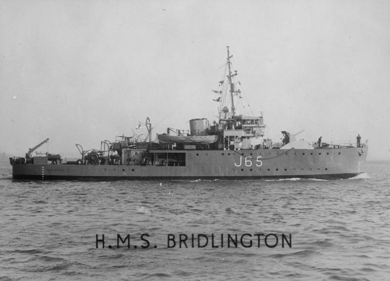 HMS Bridlington Underway in Portsmouth Harbour.